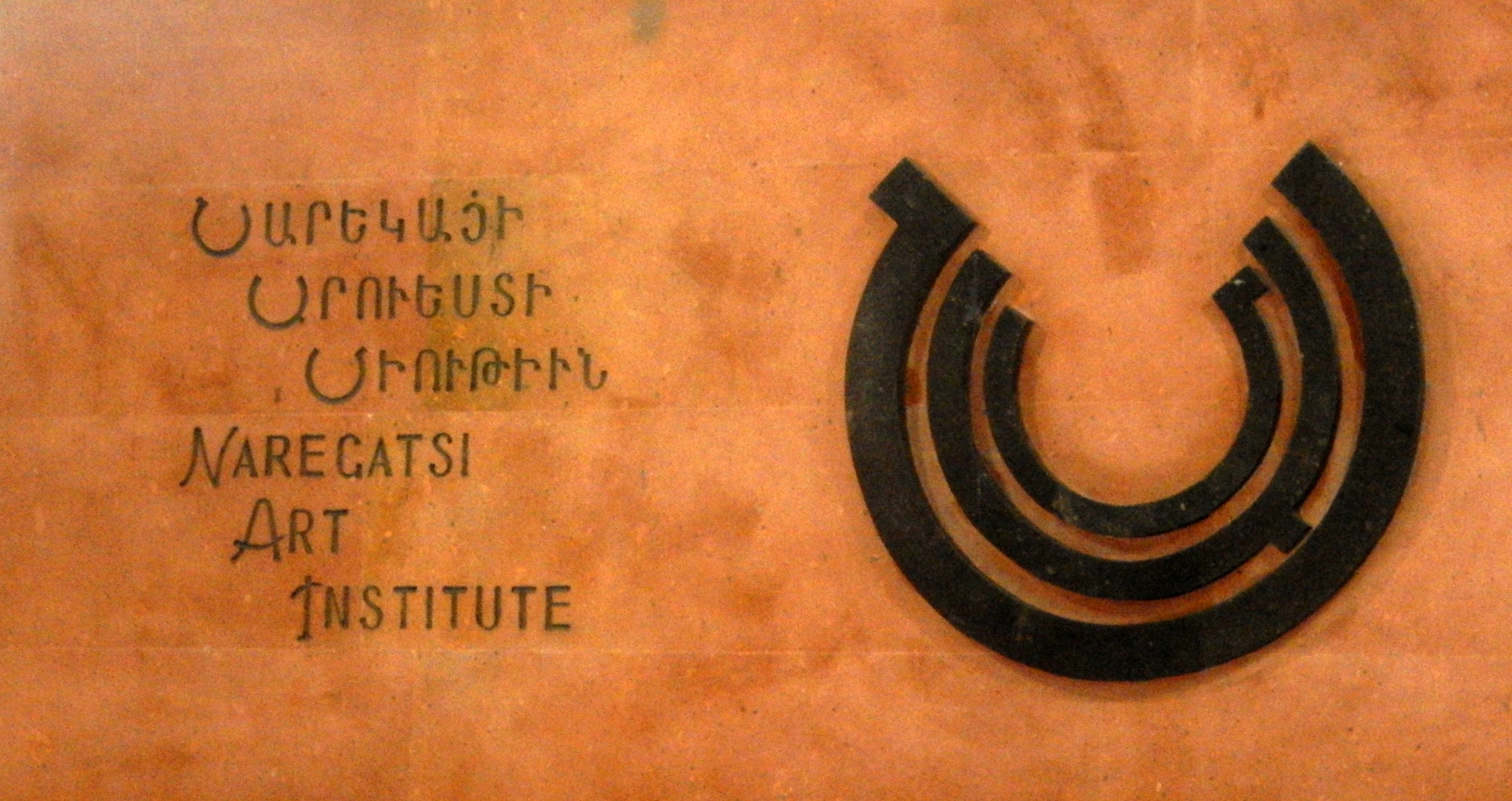 Naregatsi Art Institute